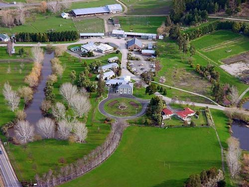 Telford - a Division of Lincoln University